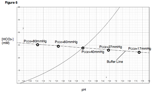 Description: Figure 6. A buffer line can be generated by varying PCO2.